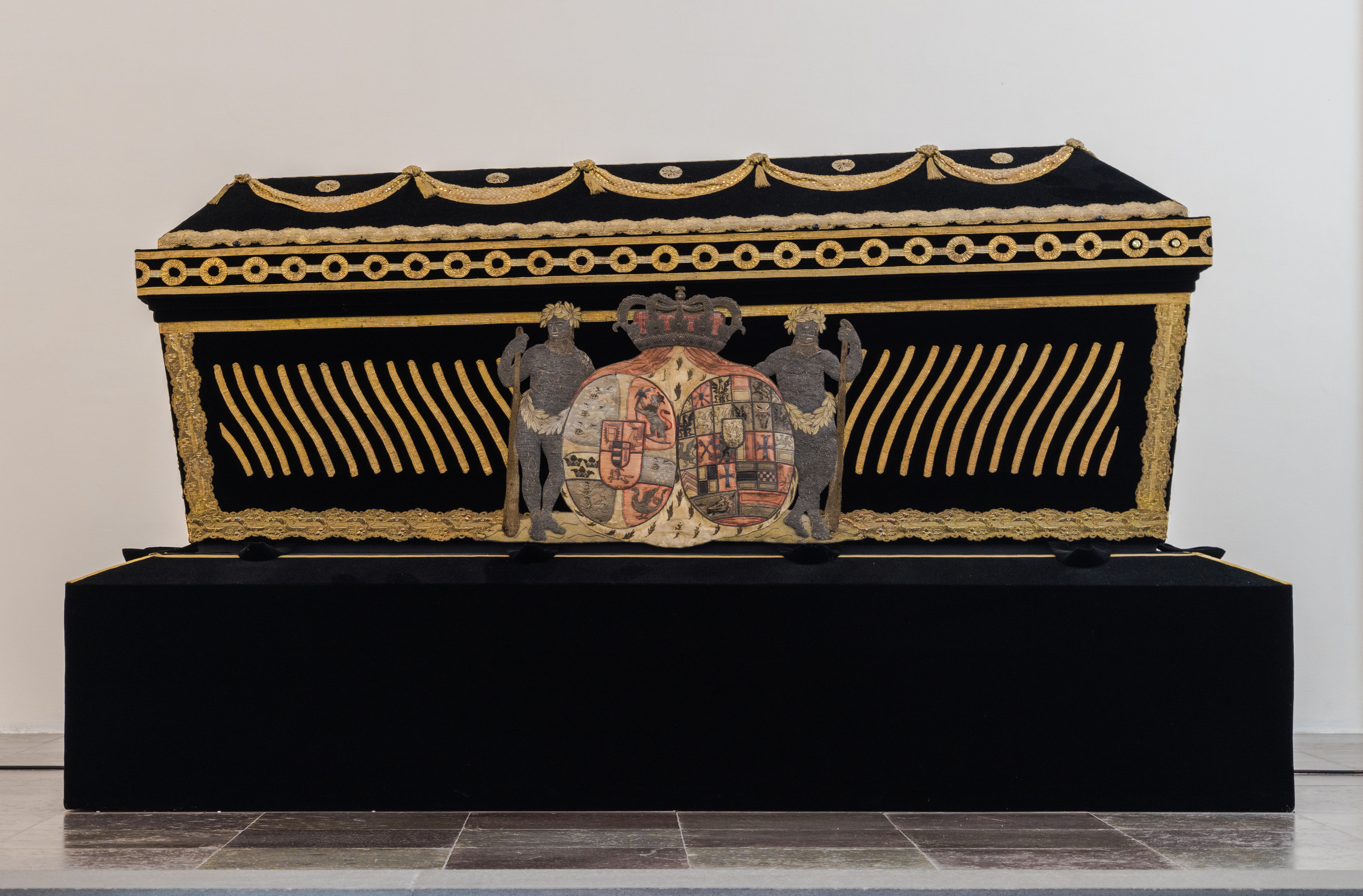 Sarcophagus of Sophie Magdalene of Brandenburg-Kulmbach, queen consort of Denmark and Norway (1700 - 1770), wife of Christian VI of Denmark. Roskilde cathedral, Denmark.